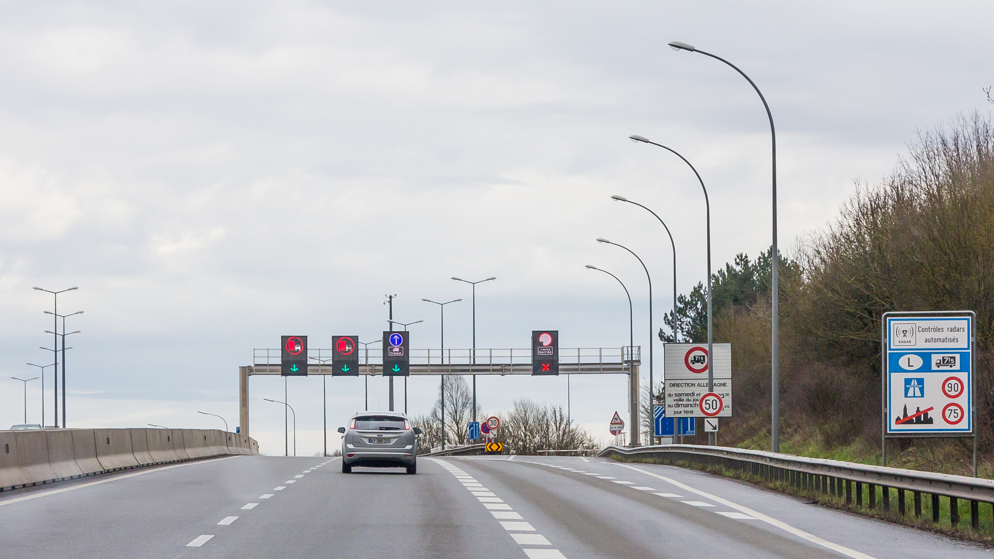 Autoroute 3 Dudelange, just behind the border